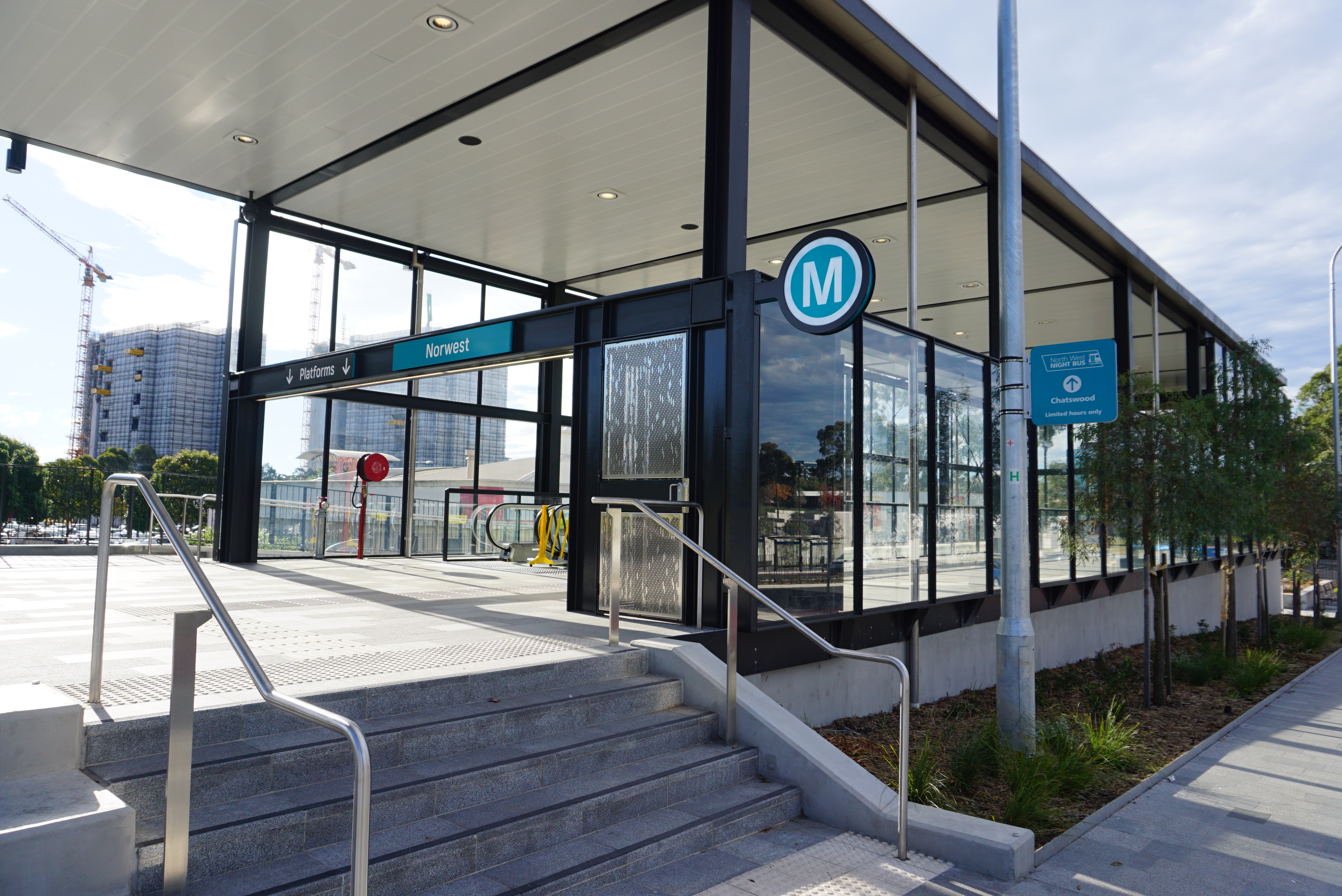 Sydney Metro